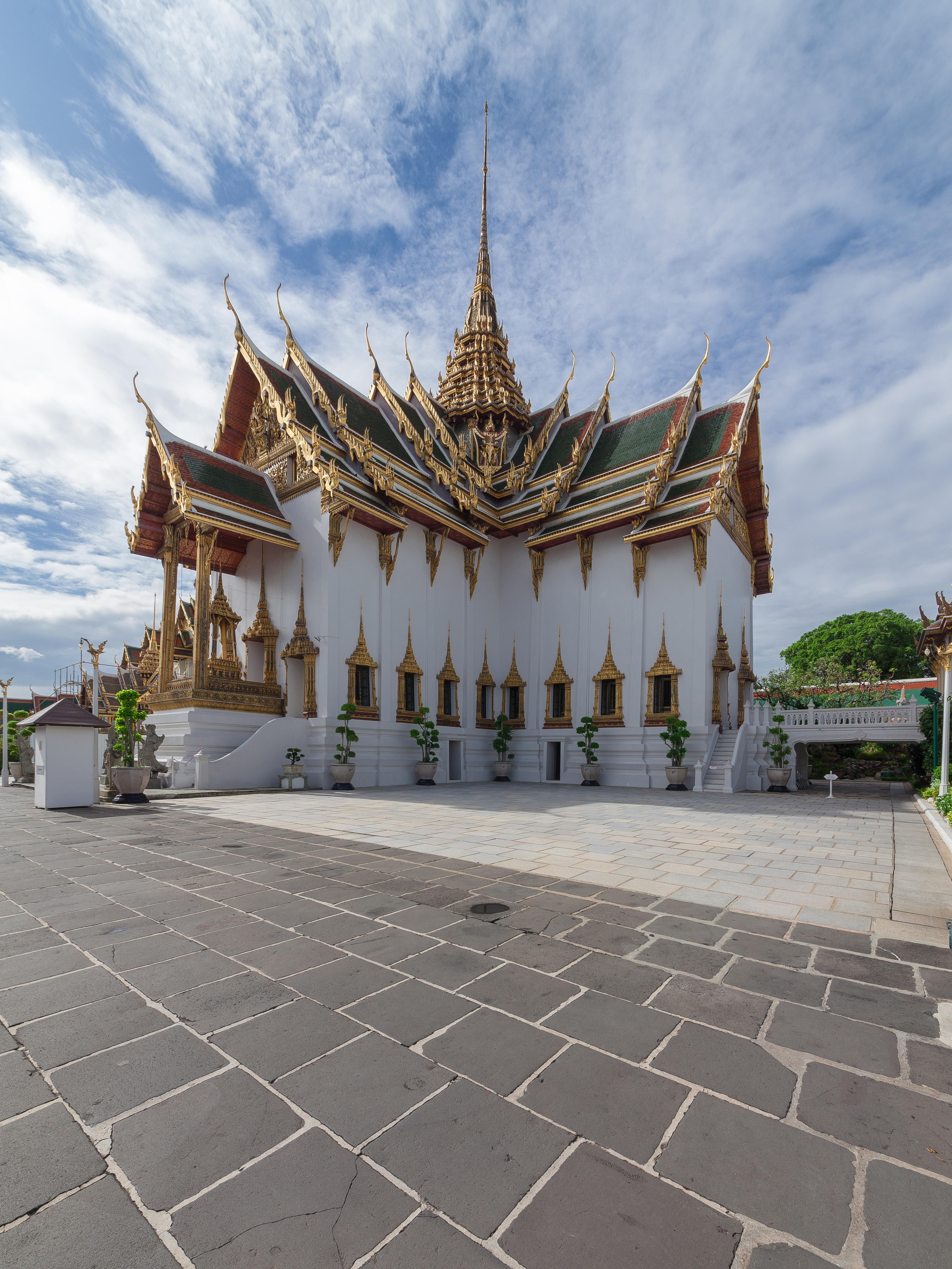 Phra Thinang Dusit Maha Prasat in Grand Palace, Bangkok.